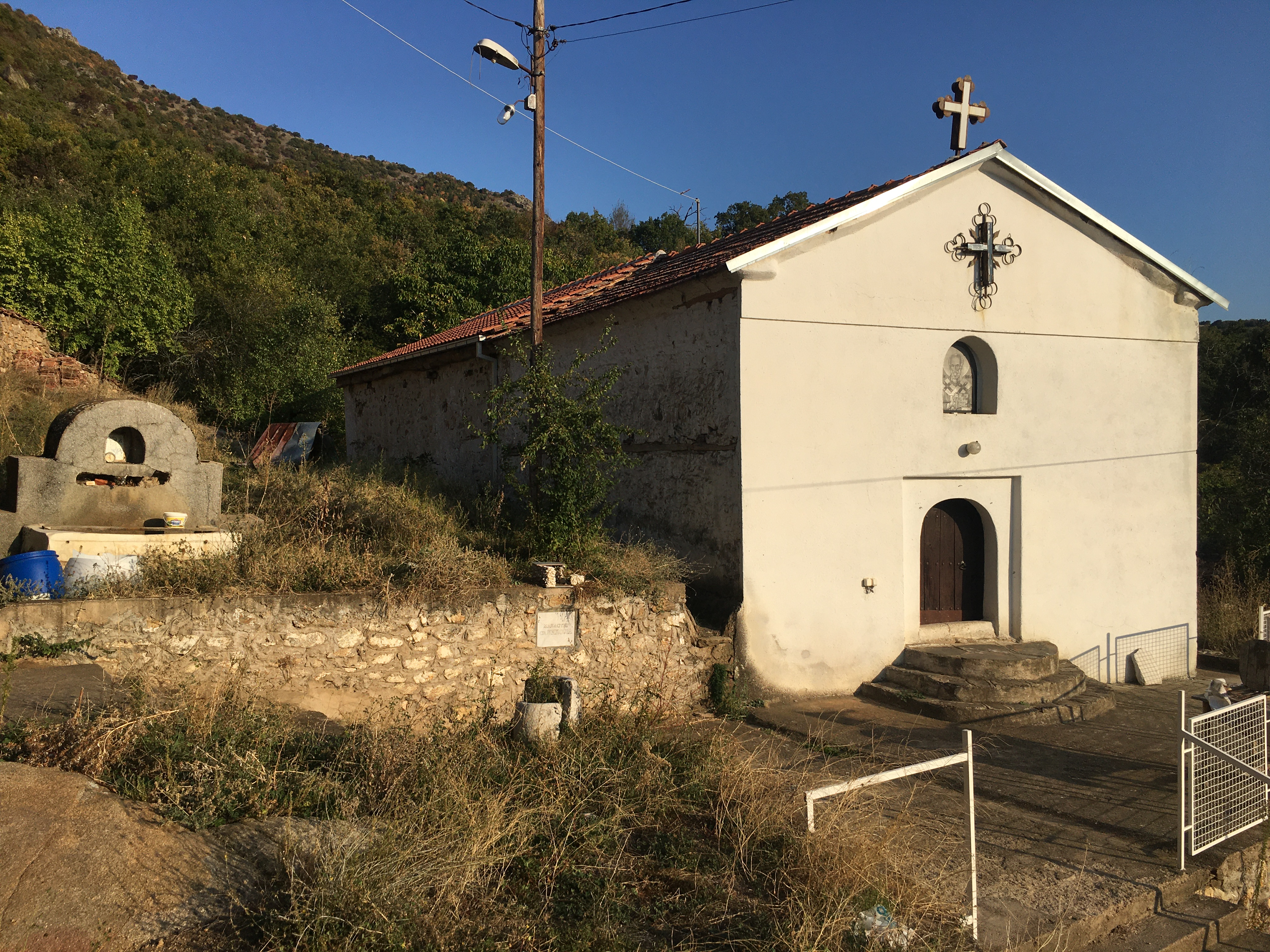 St. Nicholas Church of the Slepče Monastery